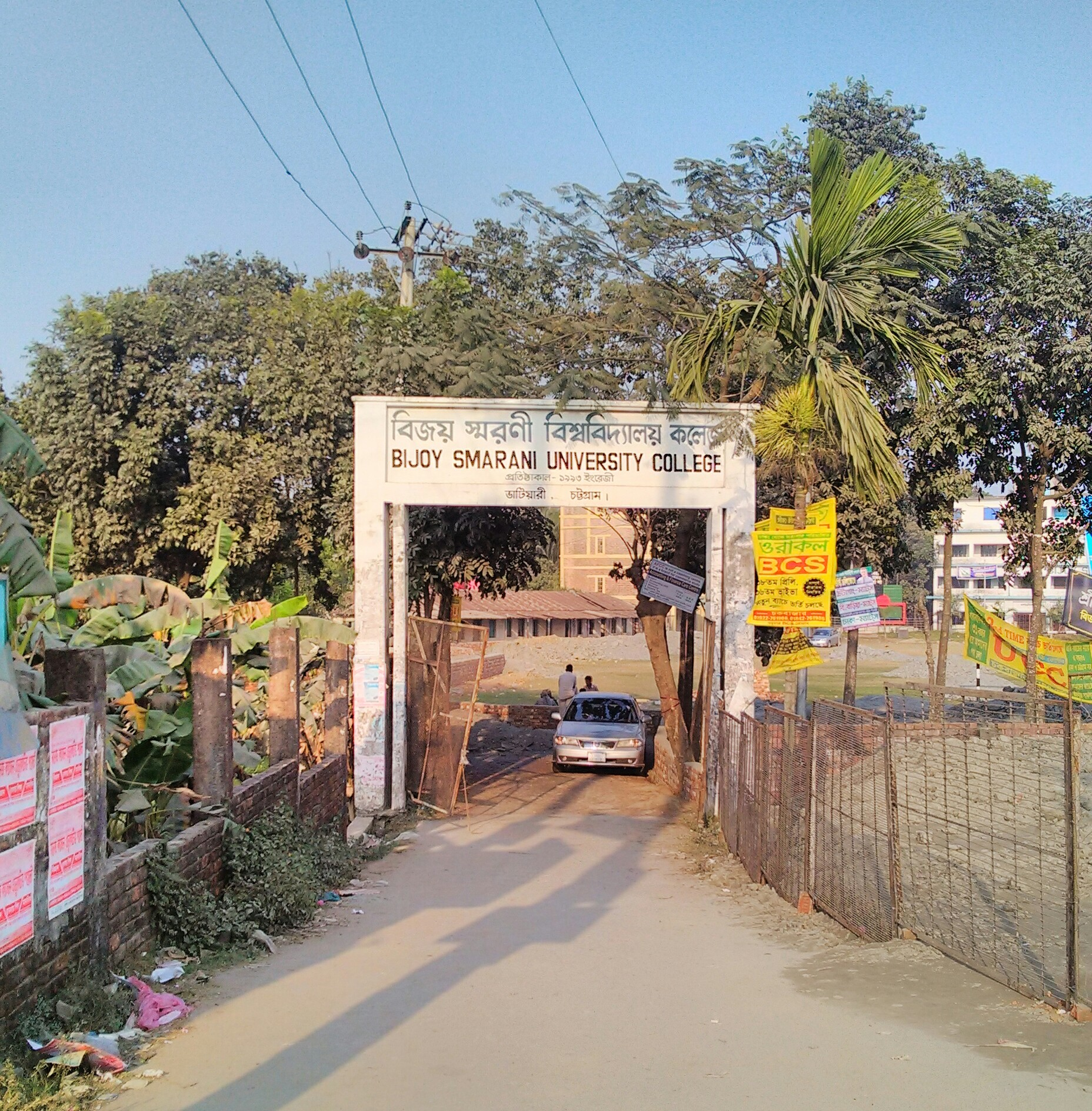 The entrance of the Bijoy Smarani College.